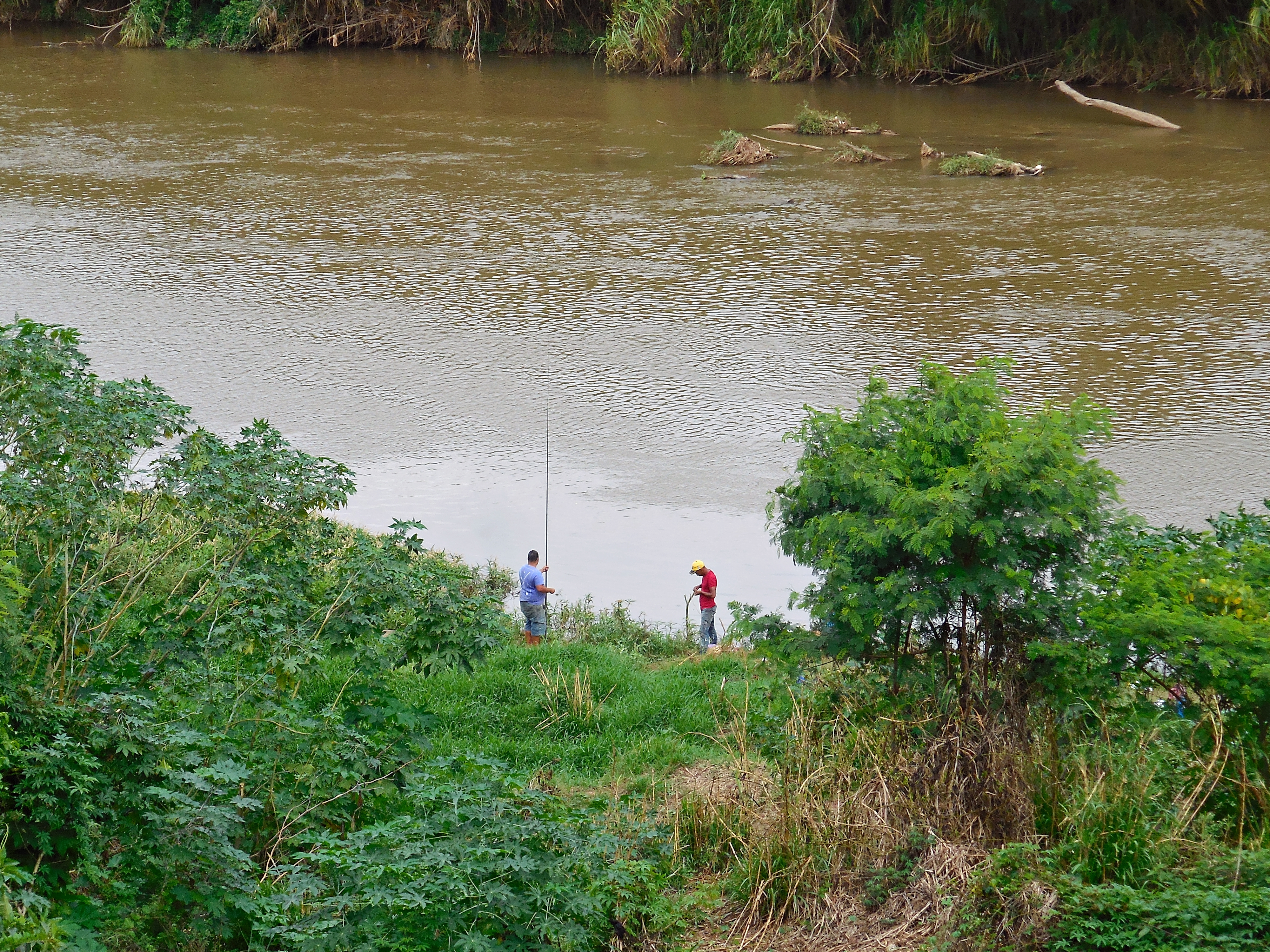 Fishermen in the Piracicaba River, in Coronel Fabriciano, Minas Gerais, Brazil.